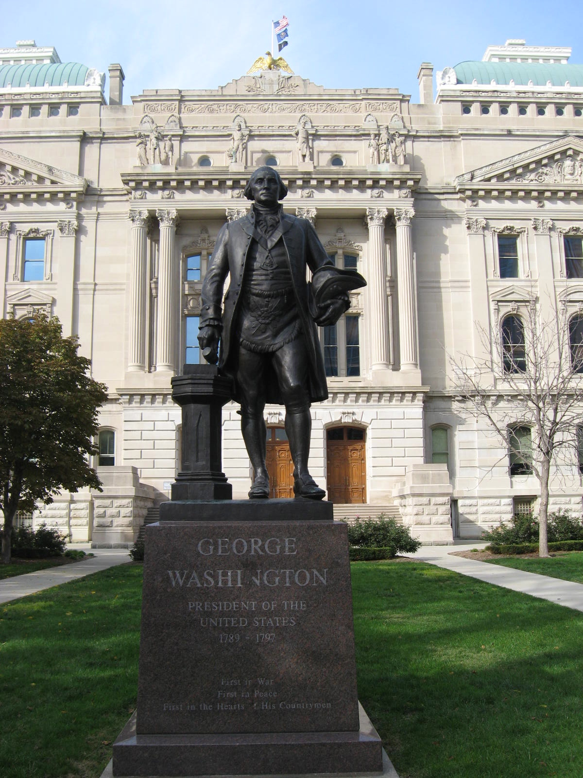 Statue of George Washington — Indiana Statehouse Public Art Collection, Indianapolis.